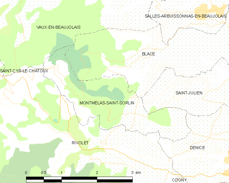 Map of French municipality